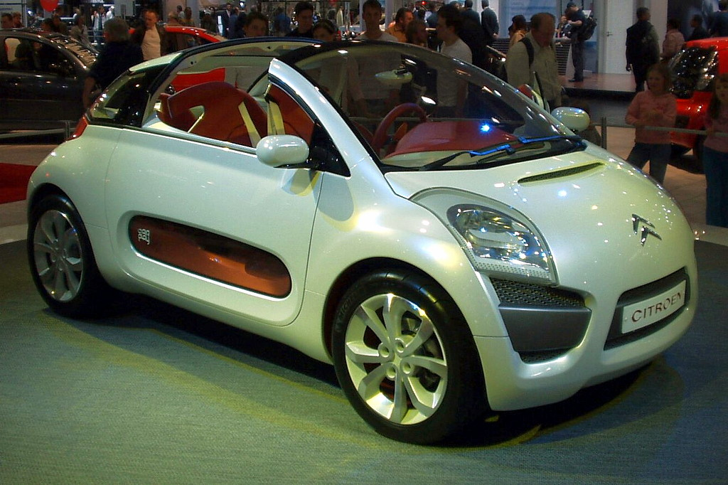 Citroën C-AirPlay